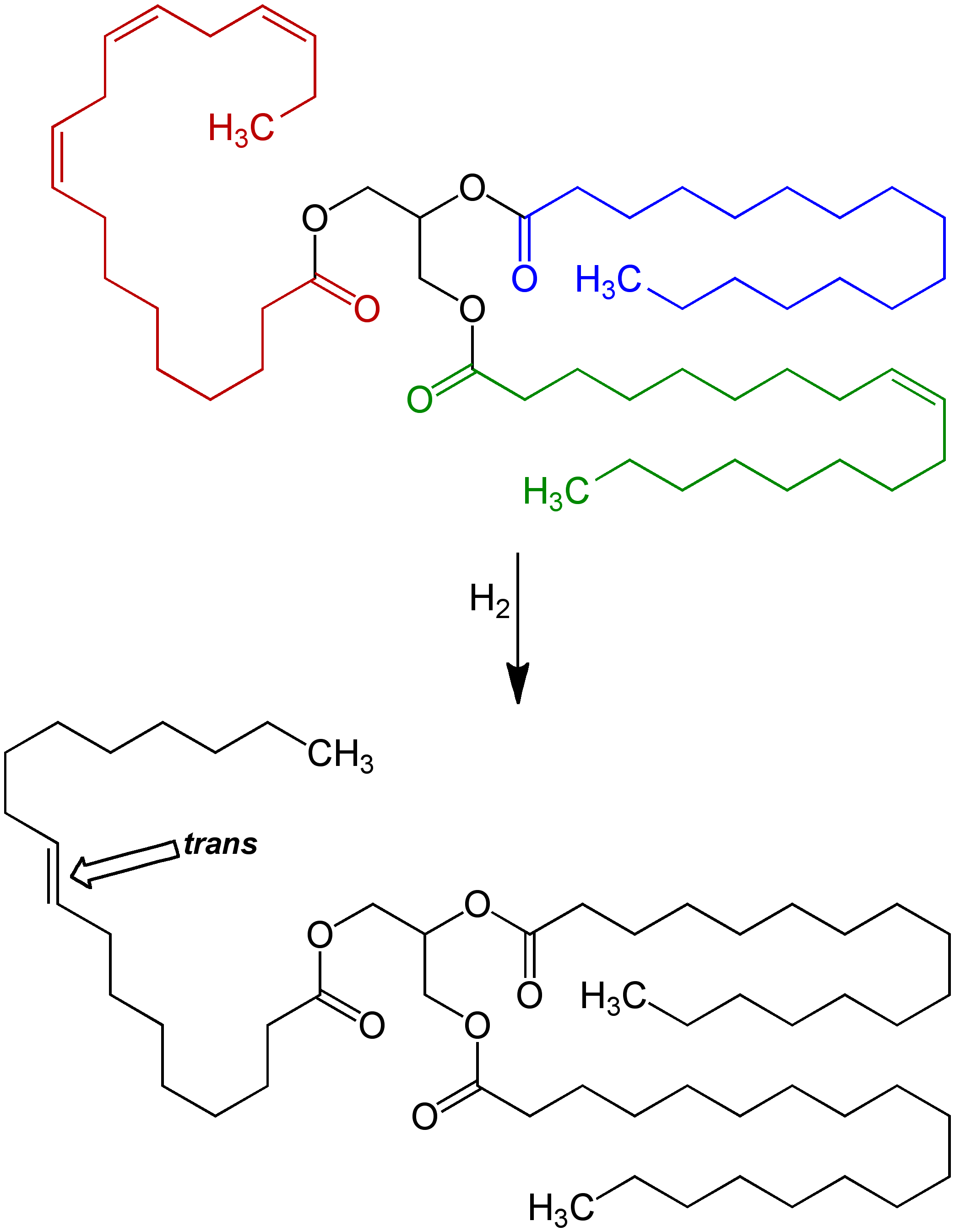 Triglyceride_Hydrogenation & Isomerization